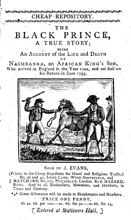 The Cheap Repository Tract, the Black Prince, published by John Evans in 1798.